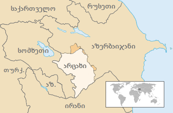 Nagorno Karabakh Current